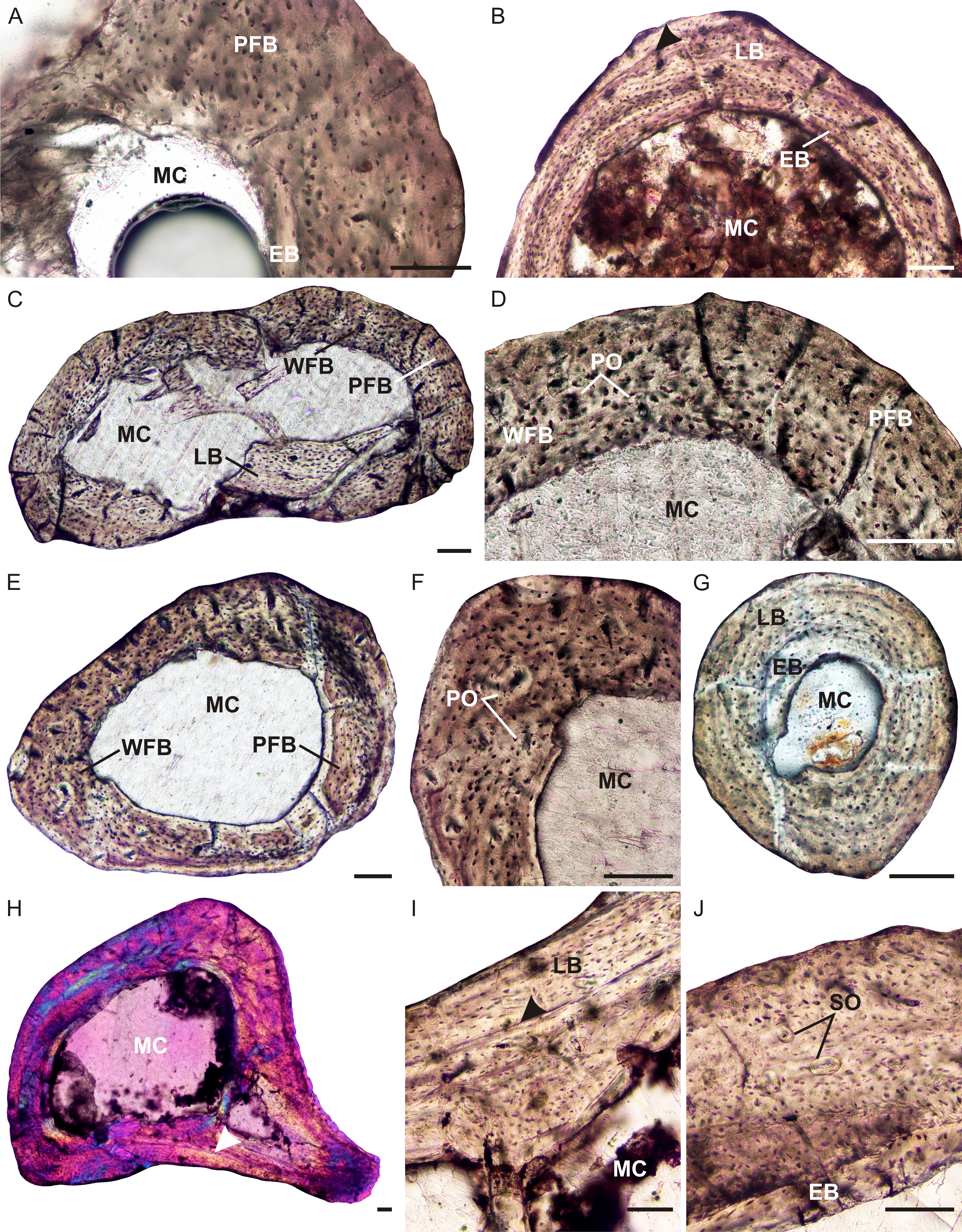 Limb bone osteohistology of Brasilitherium riograndensis, Candelária Formation, Paraná Basin, Brazil